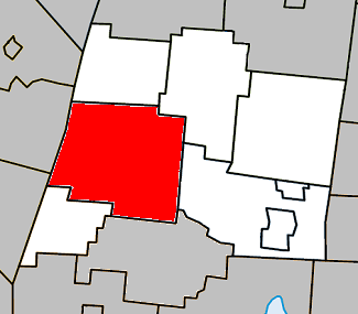 Location of Granby, Quebec within La Haute-Yamaska Regional County Municipality.